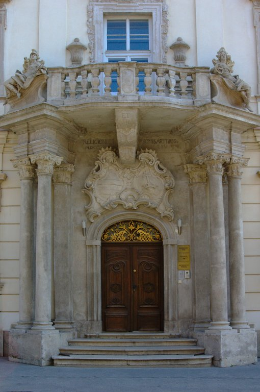 Archiepiscopacy in Trnava